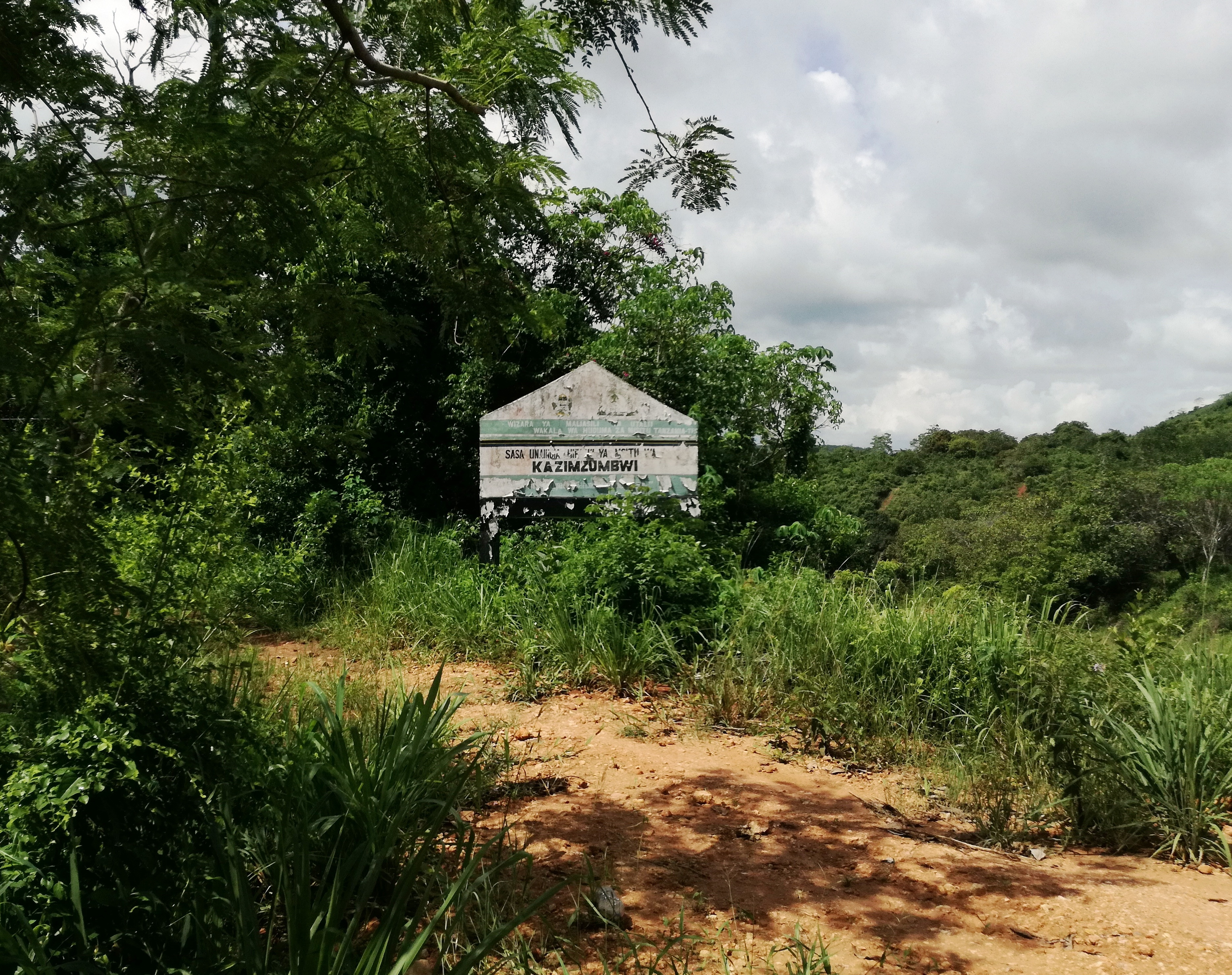 Kazimzumbwi forest gate - west of Dar es Salaam